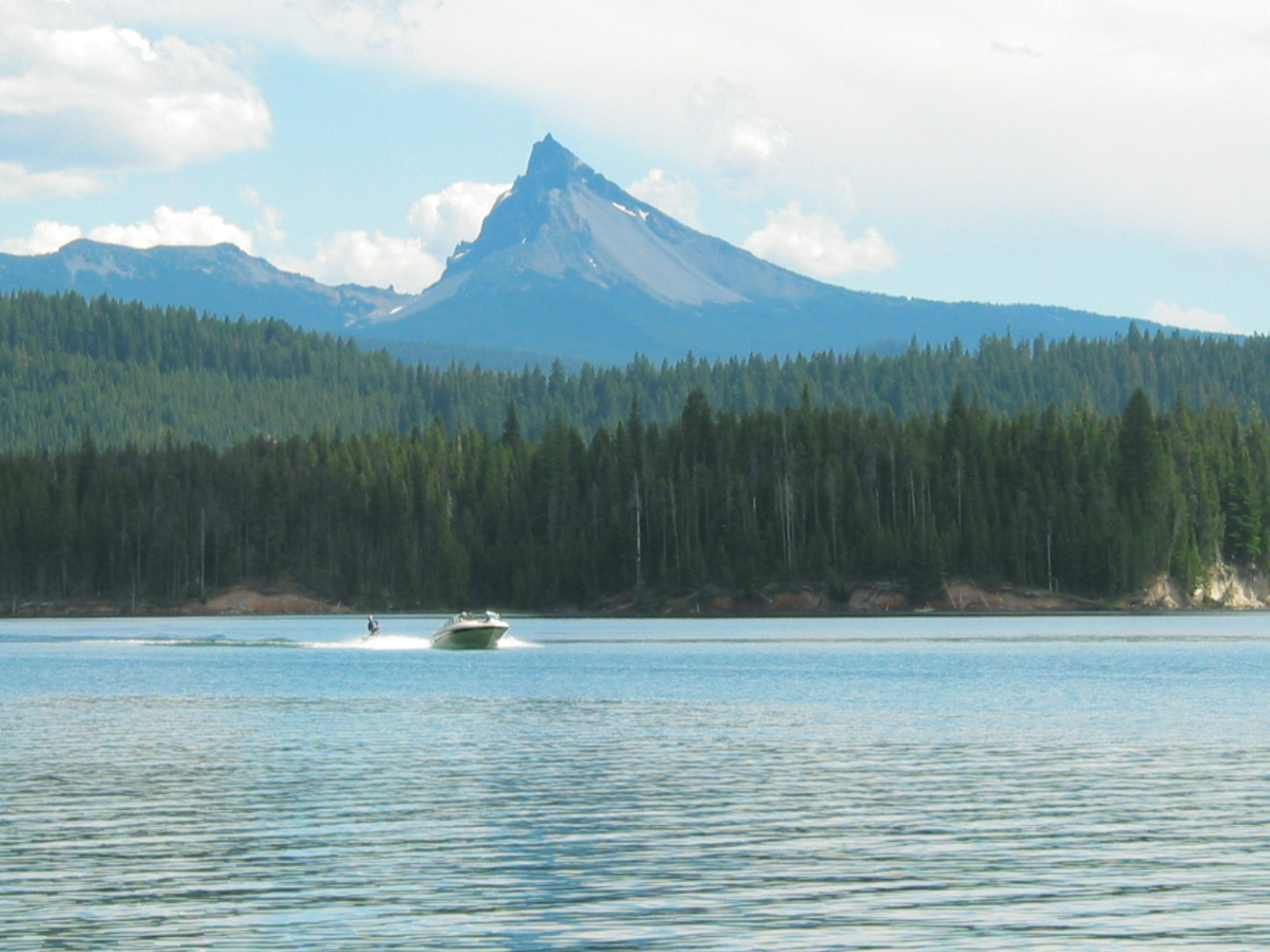 "A boat tows a water skier on Lemolo Lake with Mt. Thielson in the background. A lodgepole pine forest surrounds a small resort, day-use area, and campgrounds."